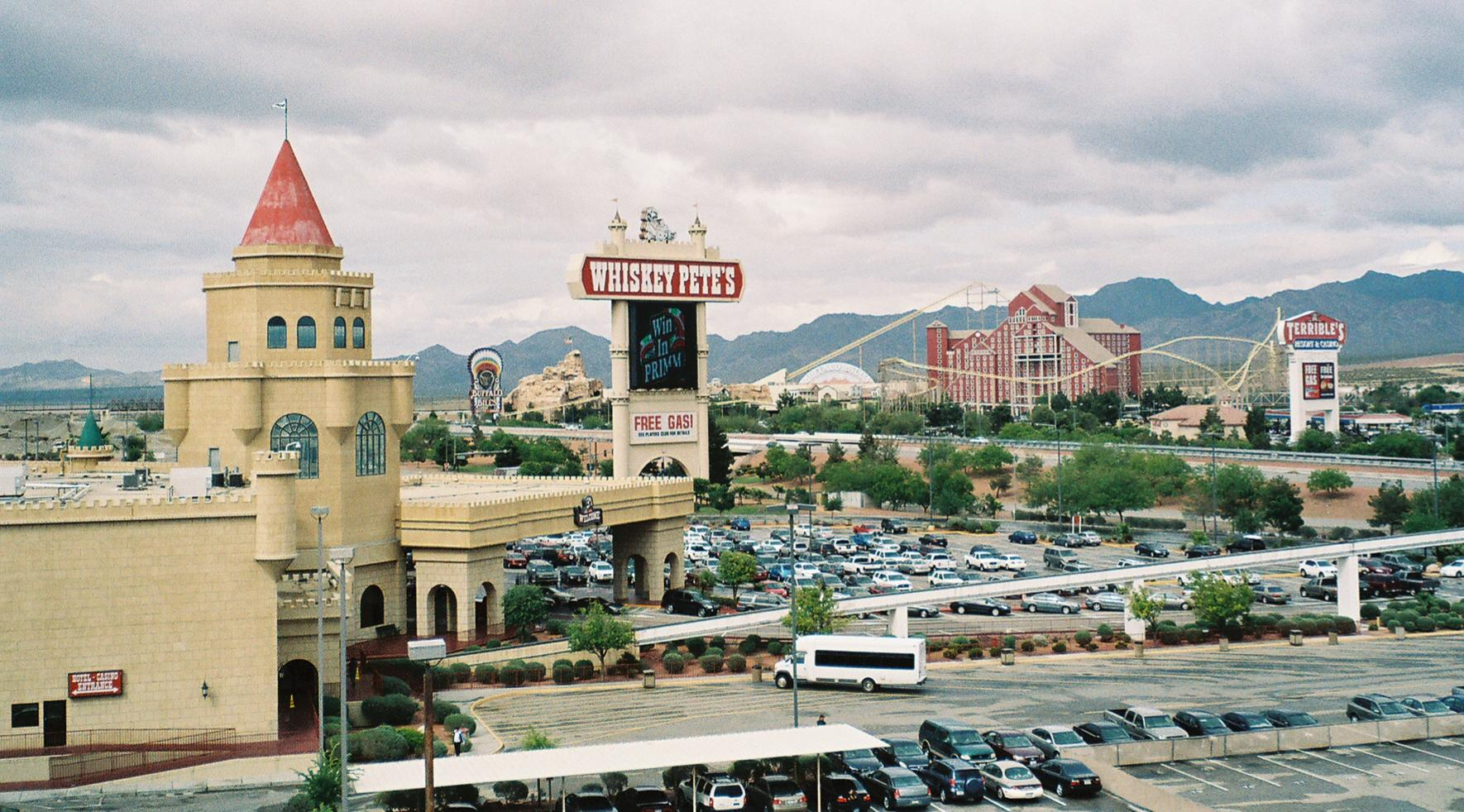 Photograph taken from the roof of the parking garage at Whiskey Pete's Casino Resort in Primm, Nevada. The signs for all three casinos, including Interstate 15 and the Desperado roller coaster at Buffalo Bills' can be seen.